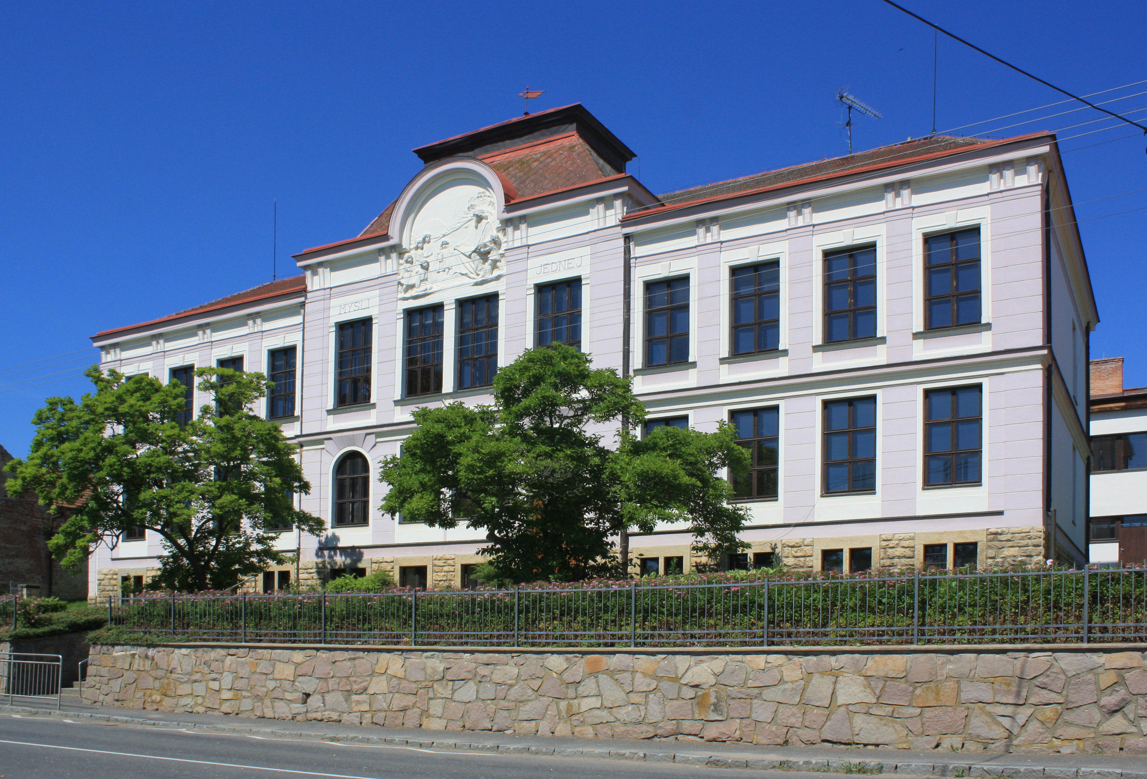 Elementary school in Osík, Czech Republic